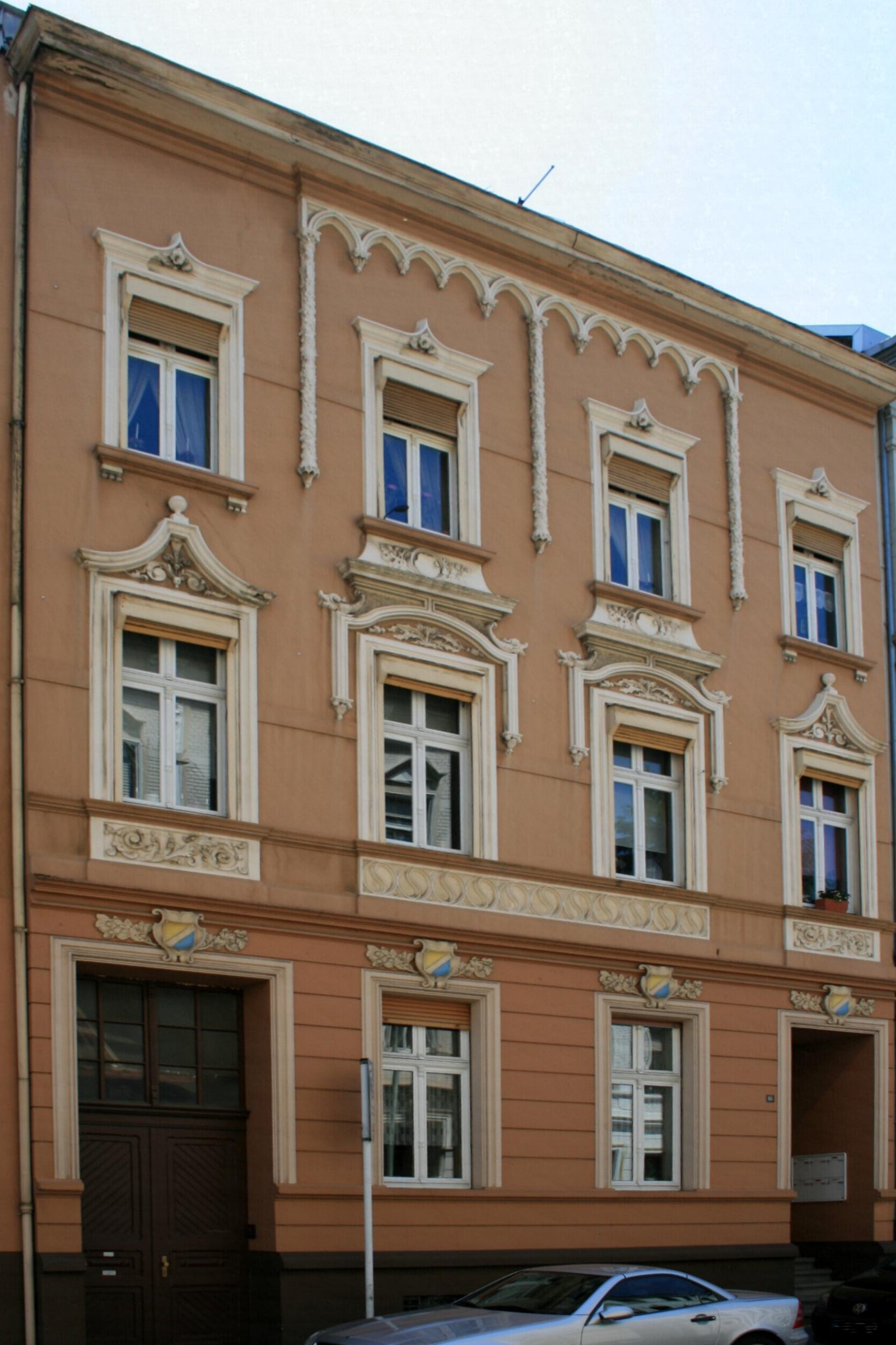 Cultural heritage monument No. F 033 in Mönchengladbach